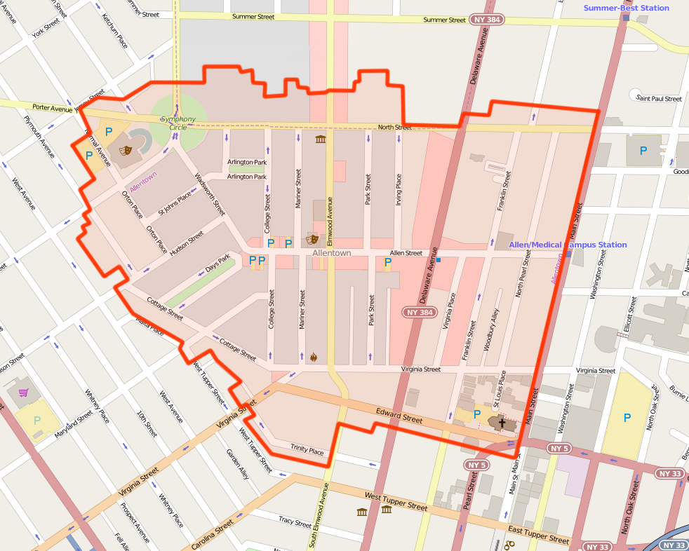 Map of the Allentown Historic District (Buffalo, New York) showing the 2012 boundaries. This map of Buffalo, New York was created from OpenStreetMap project data, collected by the community. This map may be incomplete, and may contain errors. Don't rely solely on it for navigation.